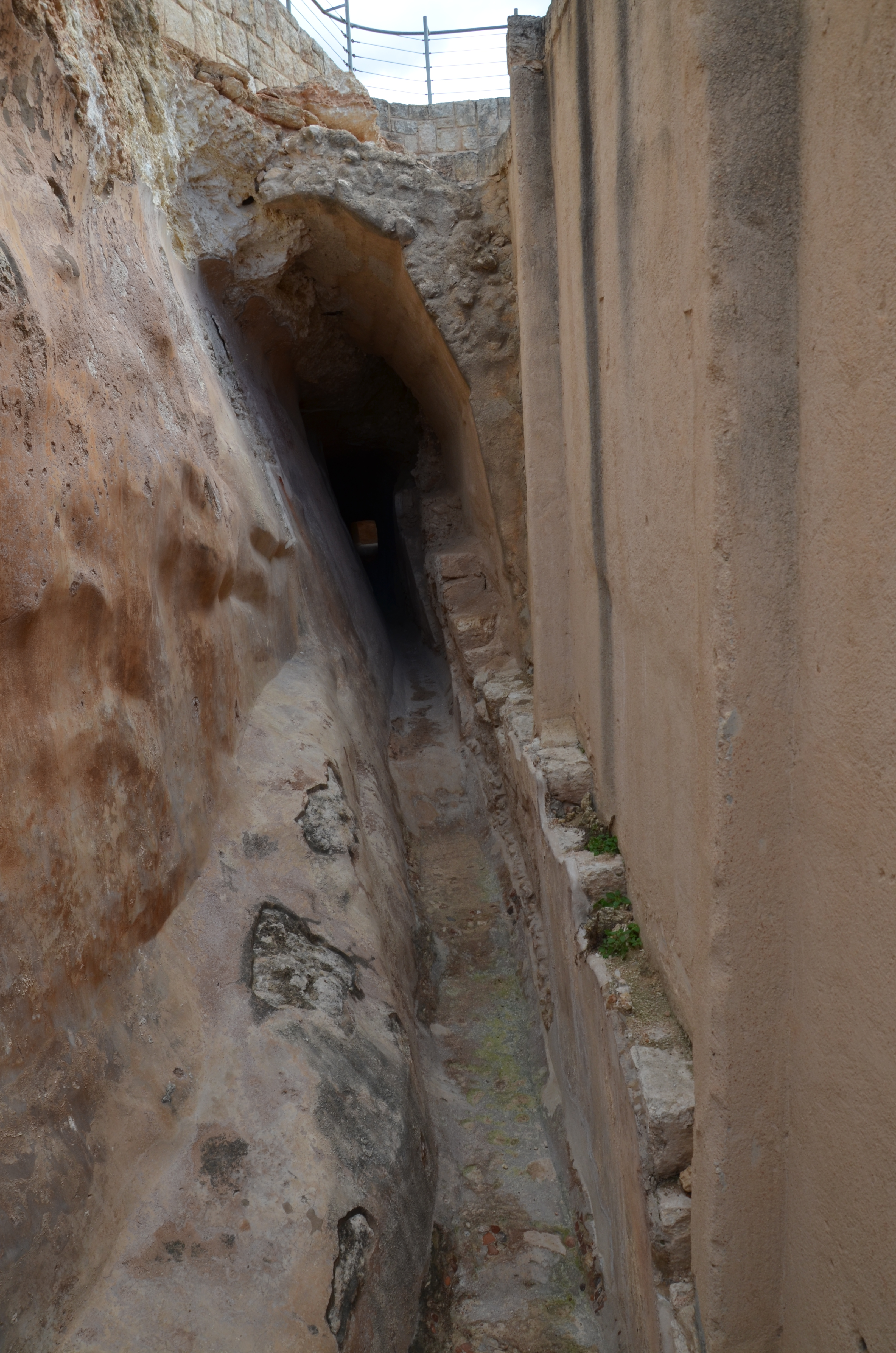 Sepphoris (Diocaesarea), Israel